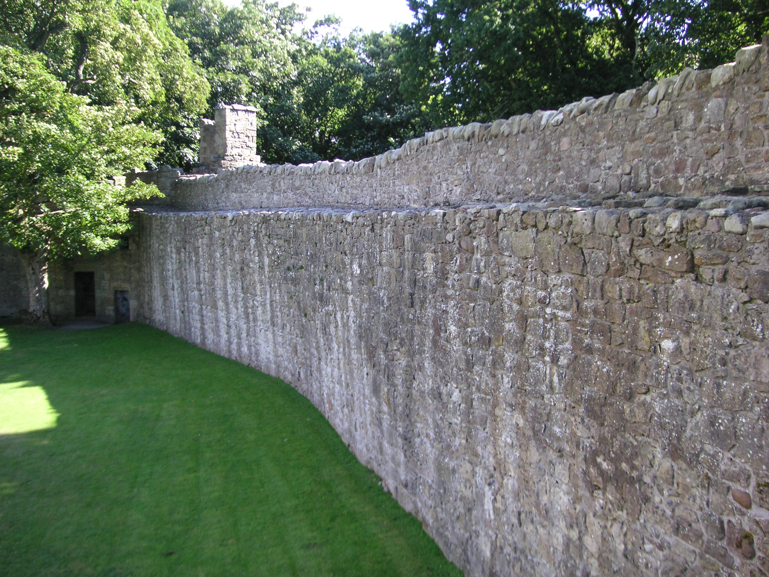 Loch Leven Castle, Perth and Kinross, Scotland.